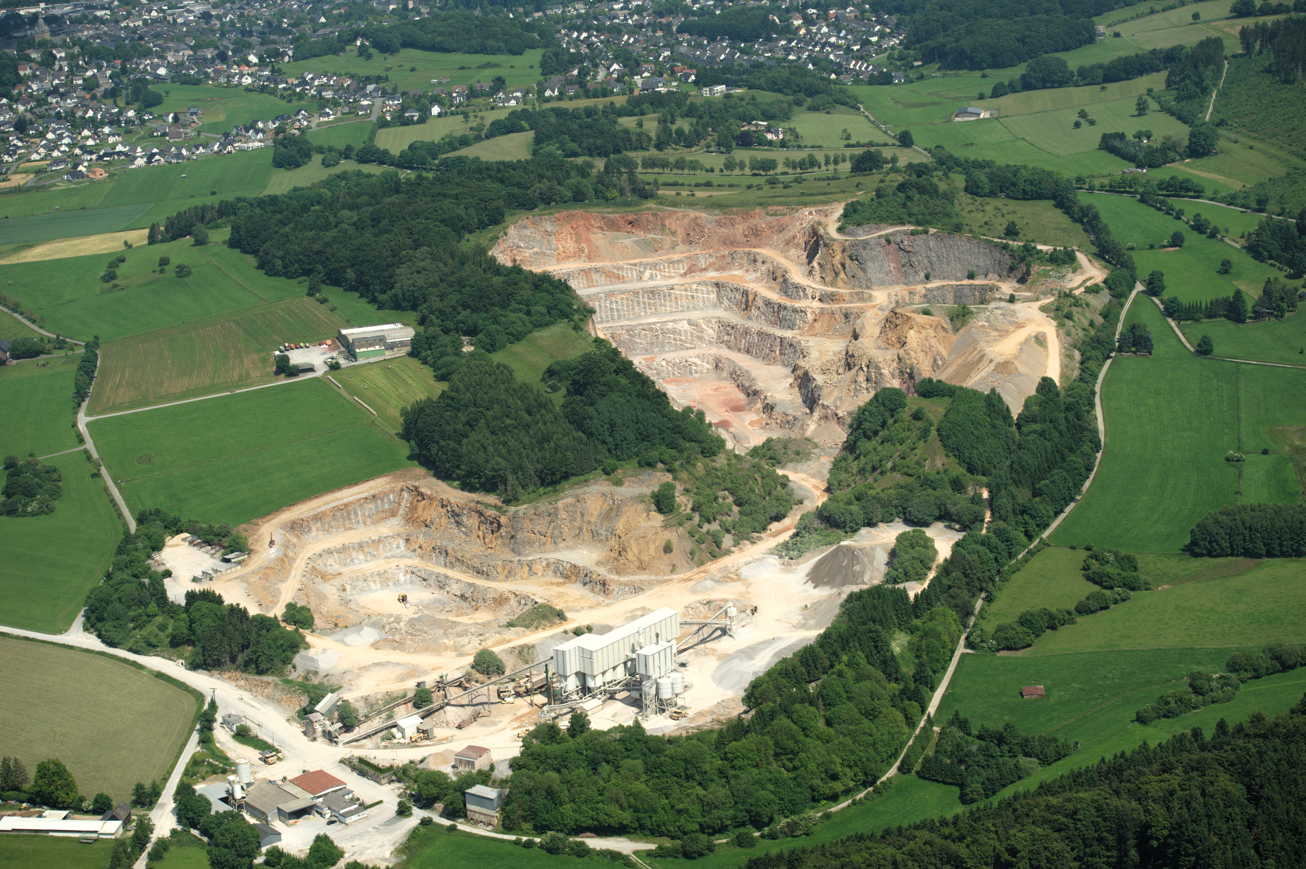 Fotoflug Sauerland-Ost - Steinbruch südwestlich von Brilon, dahinter Burhagen und Brilon The making of this document was supported by the Community-Budget of Wikimedia Germany.